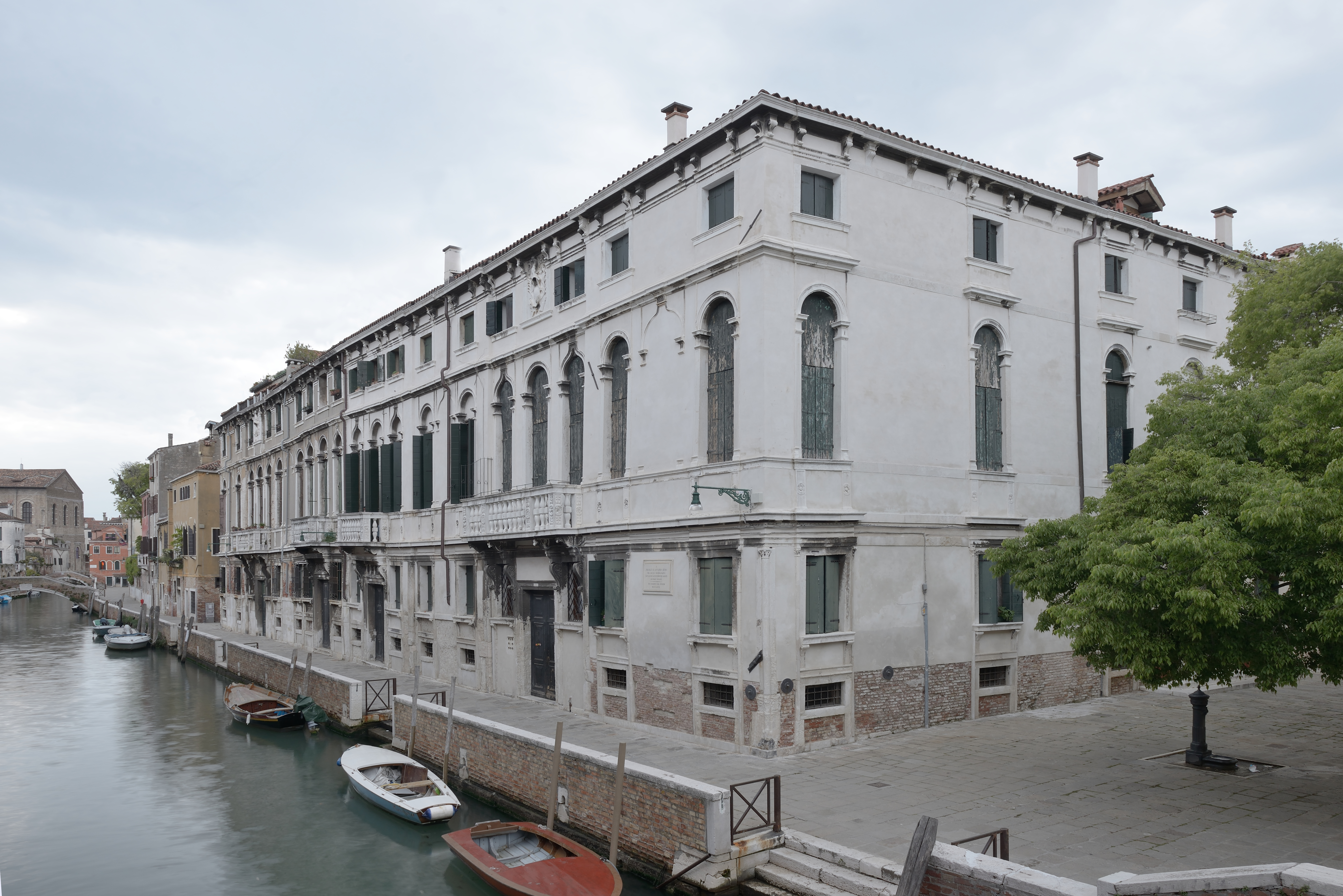 View at dawn of Palazzo Zen and Rio Santa Caterina canal in Venice.